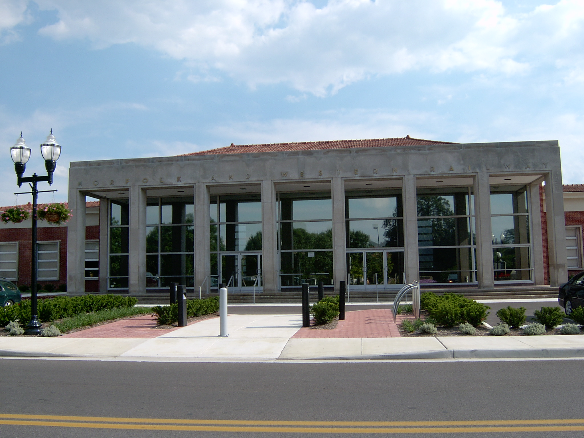 Norfolk & Western Railway passenger depot in Roanoke, Virginia that now houses the O. Winston Link Museum.